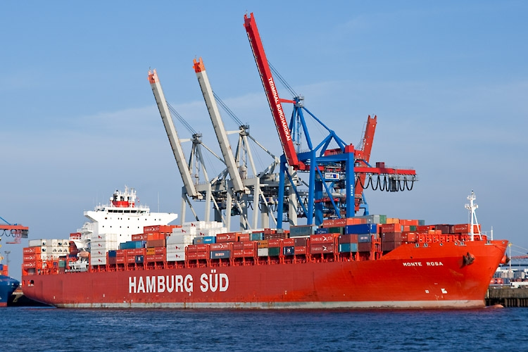 The Monte Rosa (IMO 9283215) of the Hamburg Süd shipping company is moored at the Burchardkai in the Port of Hamburg, Germany. IMO Number: 9283215 MMSI Number: 211691000 Callsign: DGHJ Length: 272 m Beam: 40 m